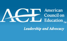 Council on Education